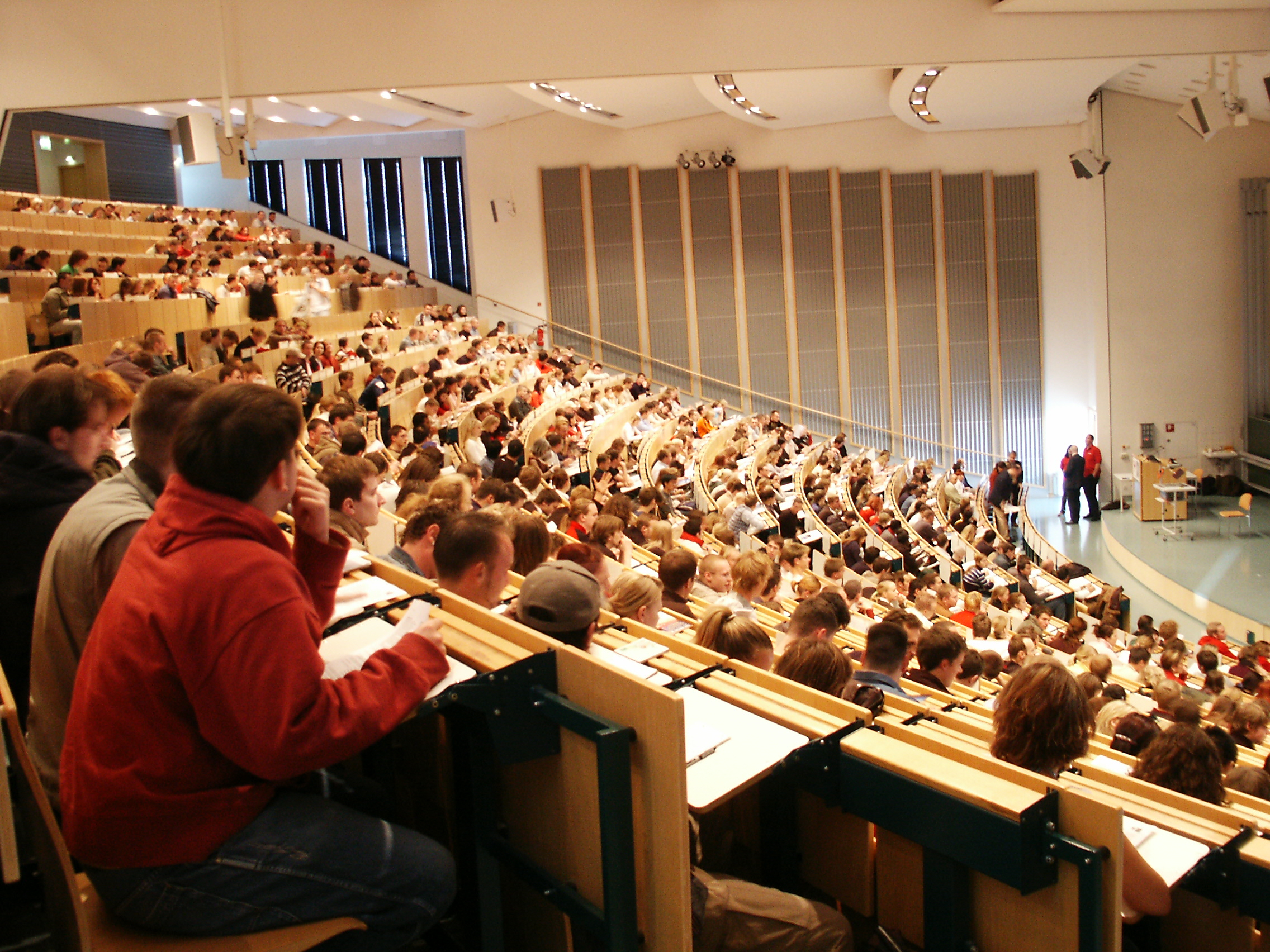 The Auditorium Maximum (Audimax) during a welcome event for new students.